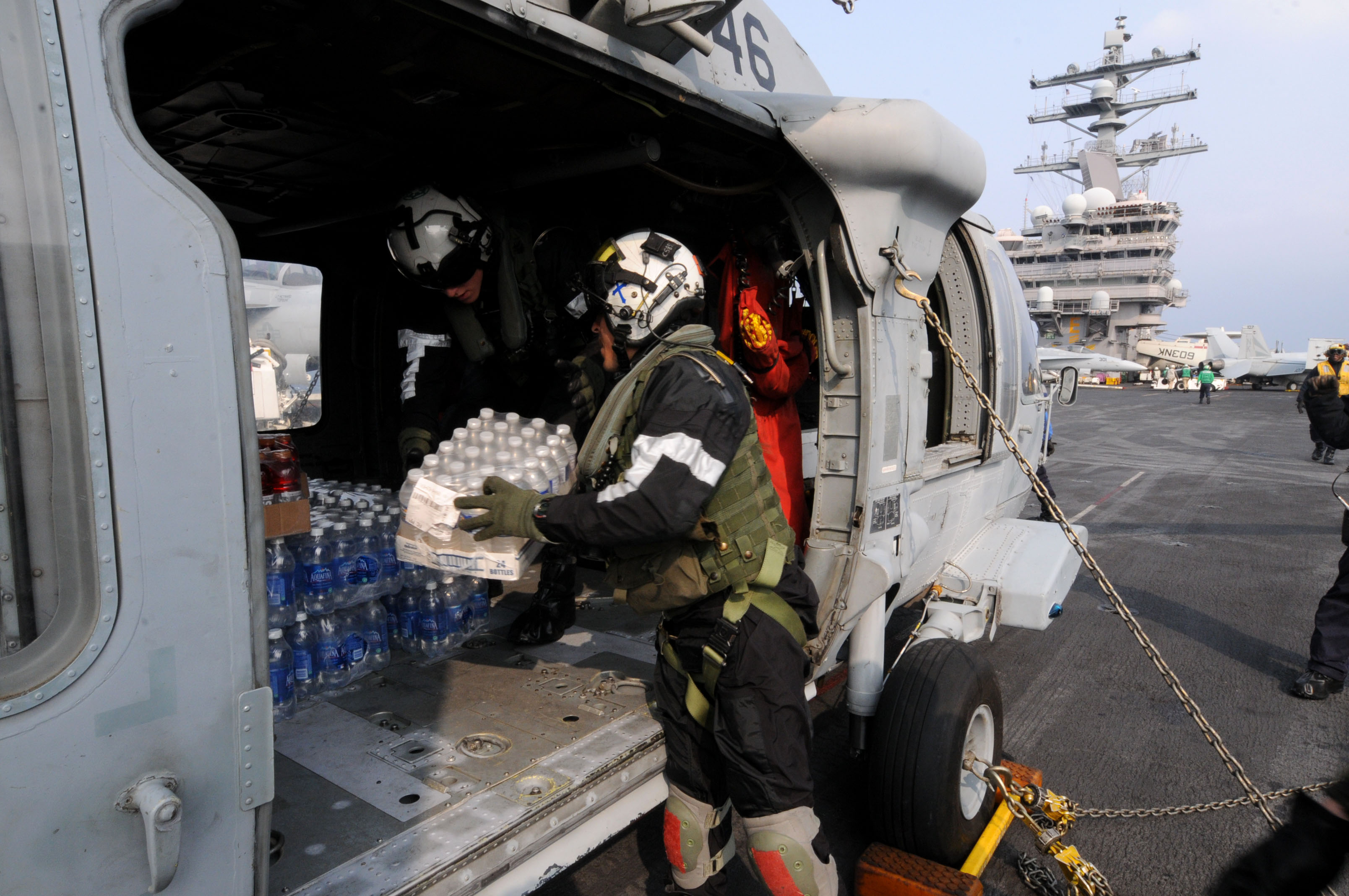 US Navy sailors transfer humanitarian supplies from an aircraft carrier to a helicopter, following the 2011 Sendai earthquake